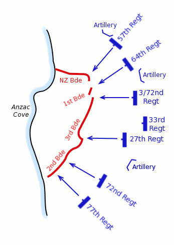 Map of Mustafa Kemal's counter-attack on the Anzac perimeter on April 27, 1915. The Anzac front is shown in red with the approximate brigade sectors noted (given that units were still intermingled). The Turkish attacks are shown in blue. The 33rd Regiment remained in reserve. Derived from a marginal map in Ch.22. Vol.I "The Story of Anzac" of the Official History of Australia in the War of 1914-18 by C.E.W. Bean.